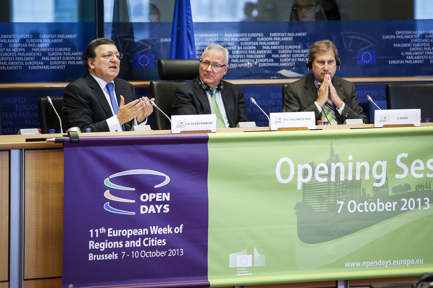 President of the CoR Ramón Luis Válcarcel Siso and the EU Commissioner responsible for Regional Policy Johannes Hahn are listening to the opening speech of the EC President José Manuel Barroso